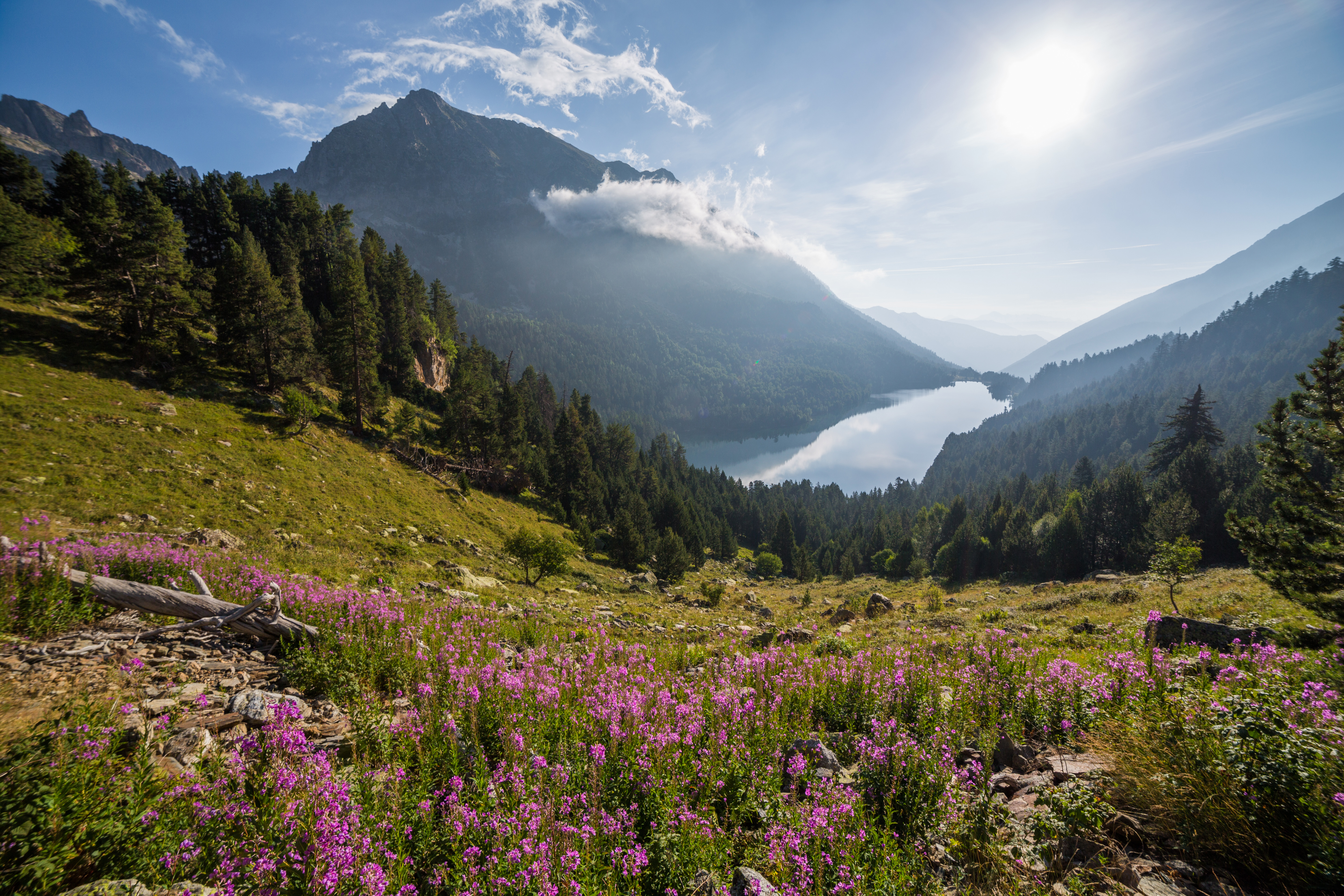 Sant Maurici lake as seen from Aigüestortes i Estany de Sant Maurici, a National Park in Catalonia, Spain.